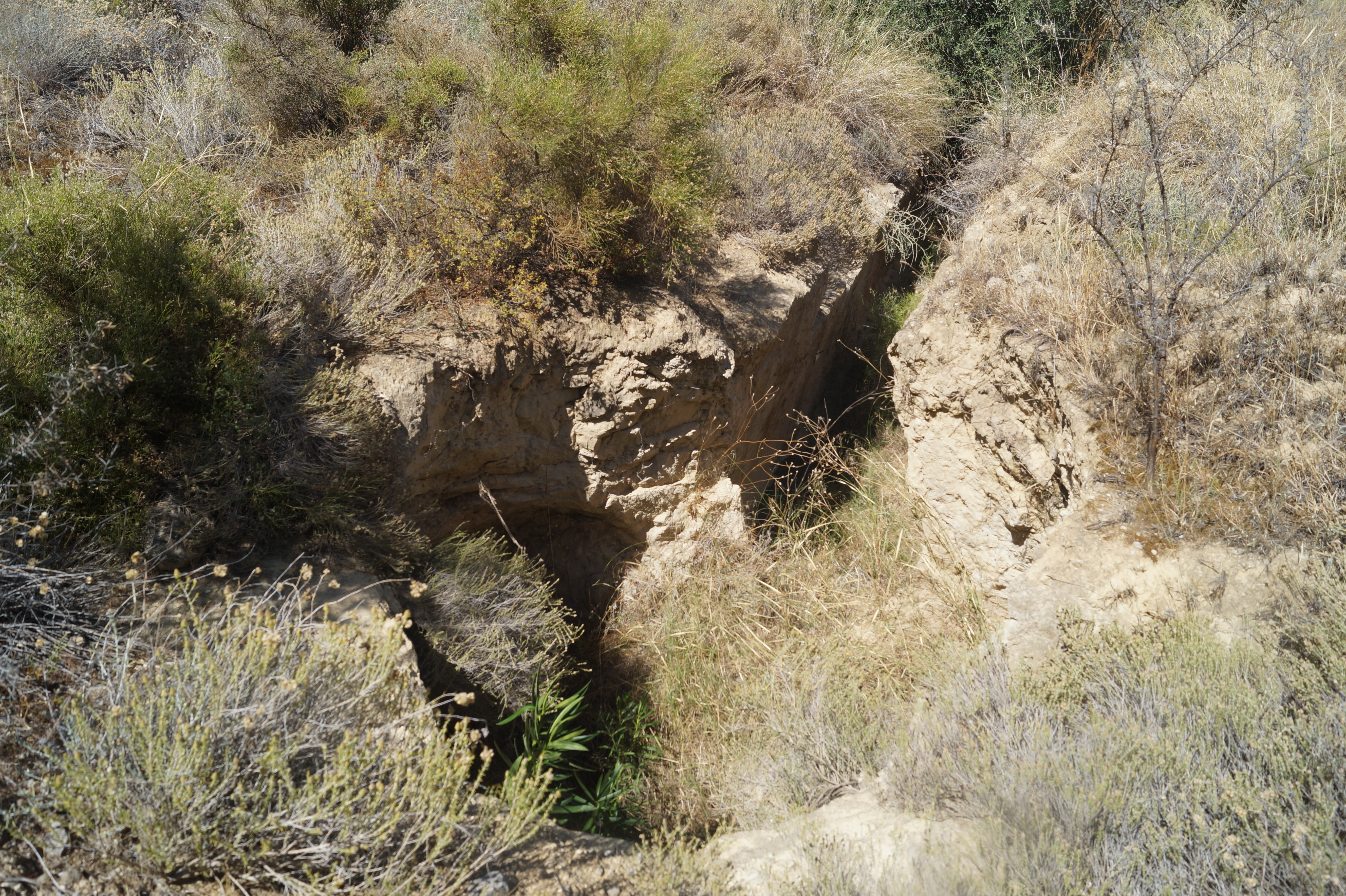 Kato Almyri, Corinthia, Greece: View from south on the collapsed chamber of tomb XXI of the mycenaean cemetery of Kato Almyri.